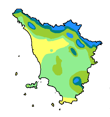 Total annual snow precipitation in Tuscany